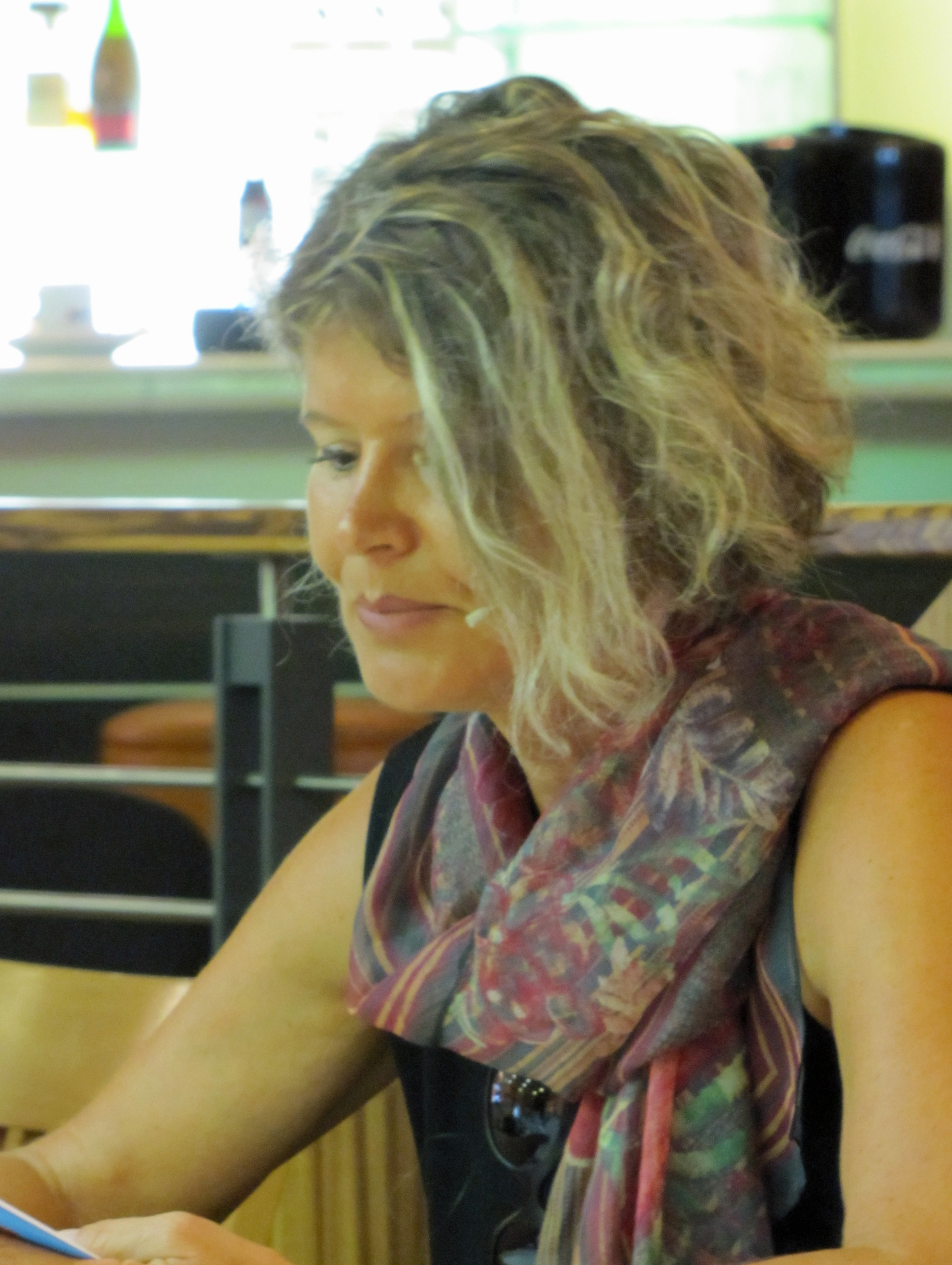 Gabriele Koegl, Austrian writer, 2011 in Frankfurt am Main, Germany.